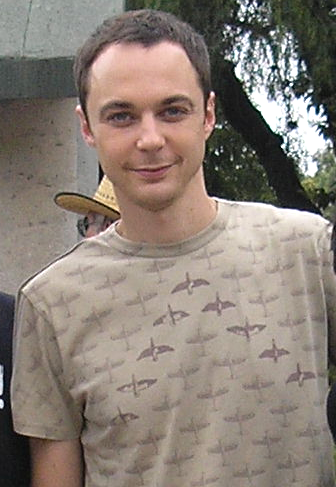 Jim Parsons shot on 2008 on a tour with the rest of The Big Bang Theory cast.